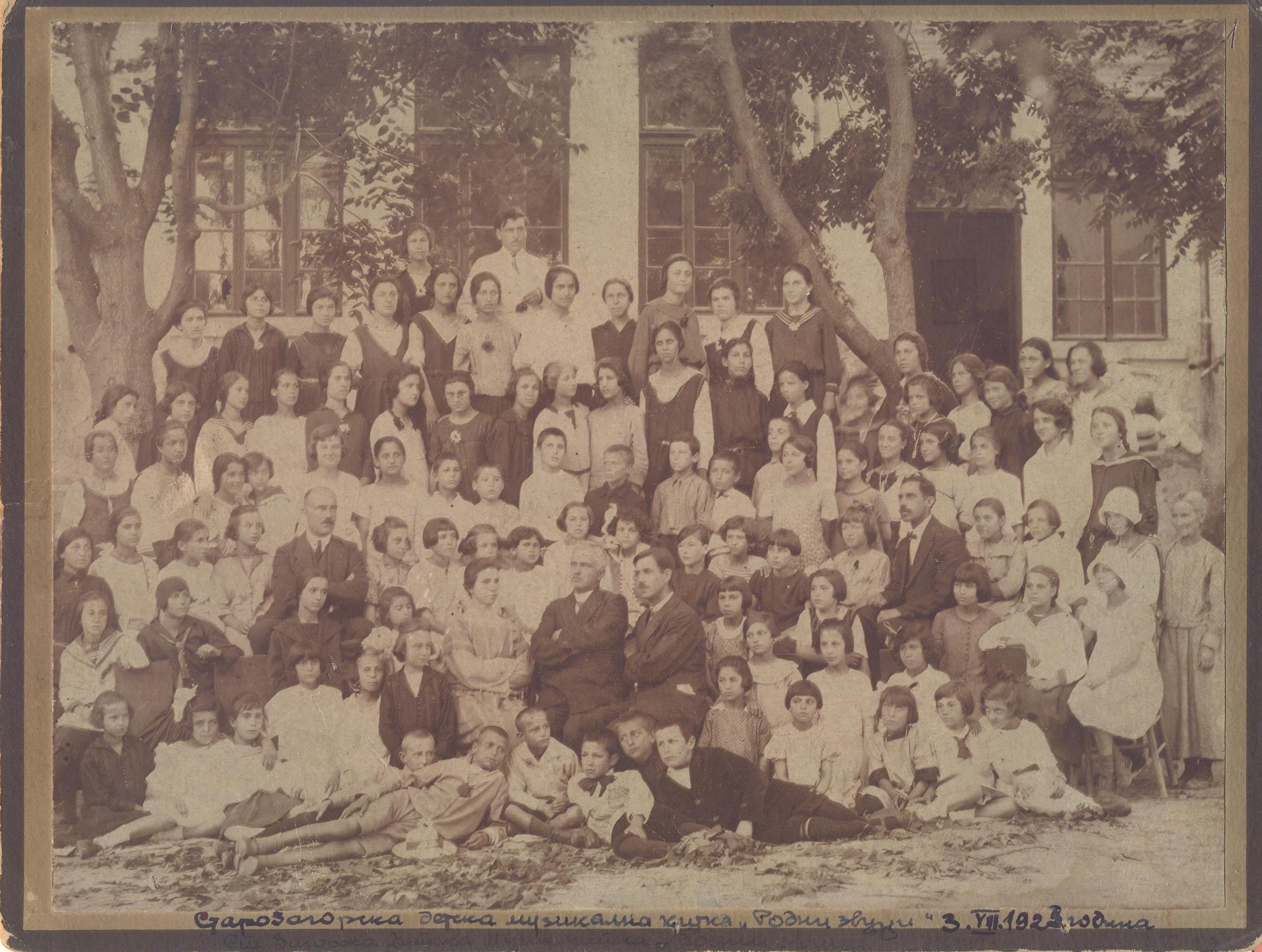 "Rodni zvuci" children's music school in the schoolyard of St. Dimitar school in Stara Zagora. July 3, 1923